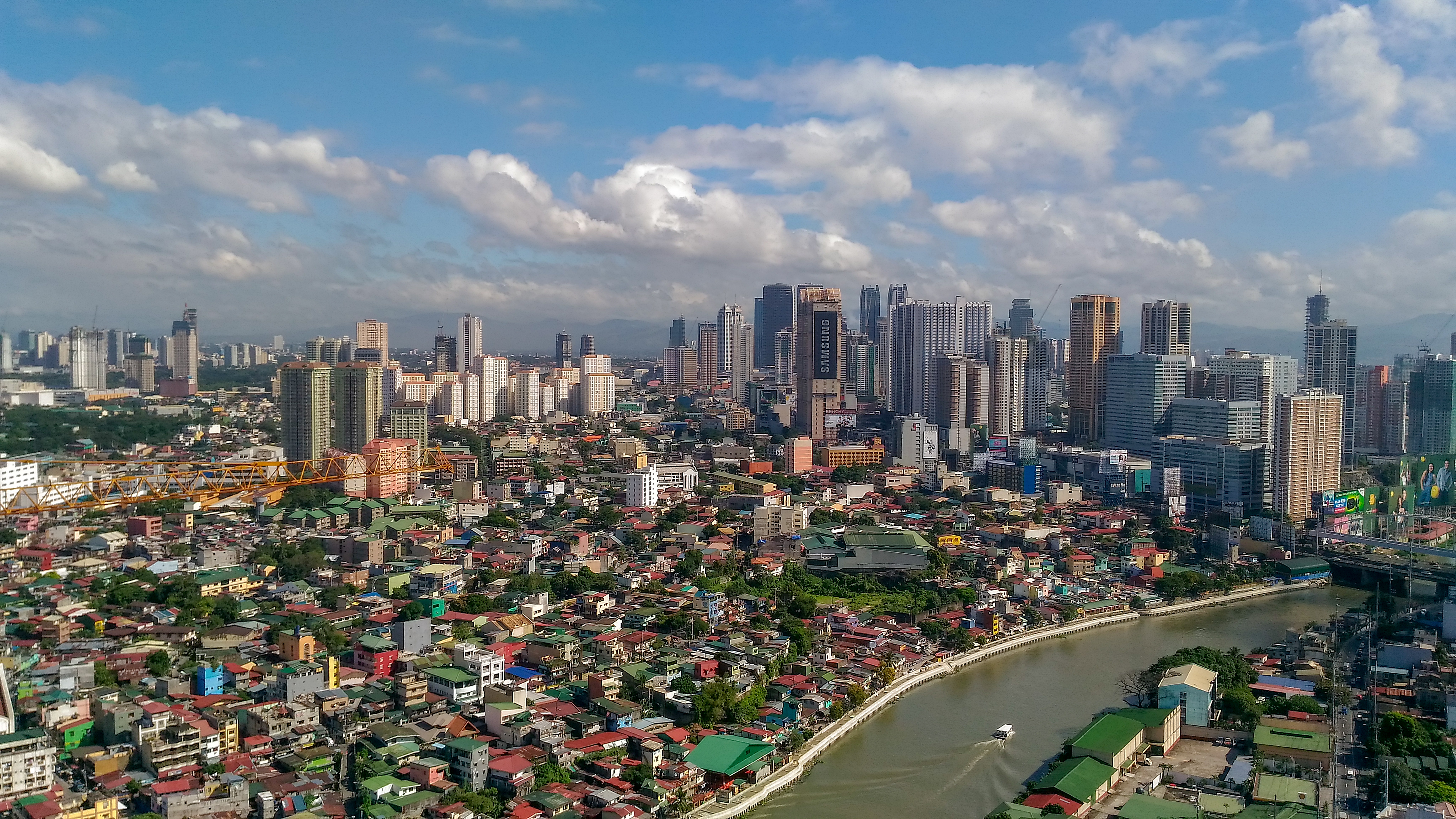 This was shot from a building in Makati City across the Pasig river.